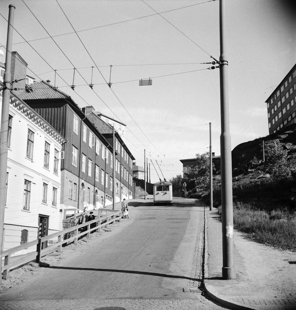 Trolley bus in Gothenburg 1946.